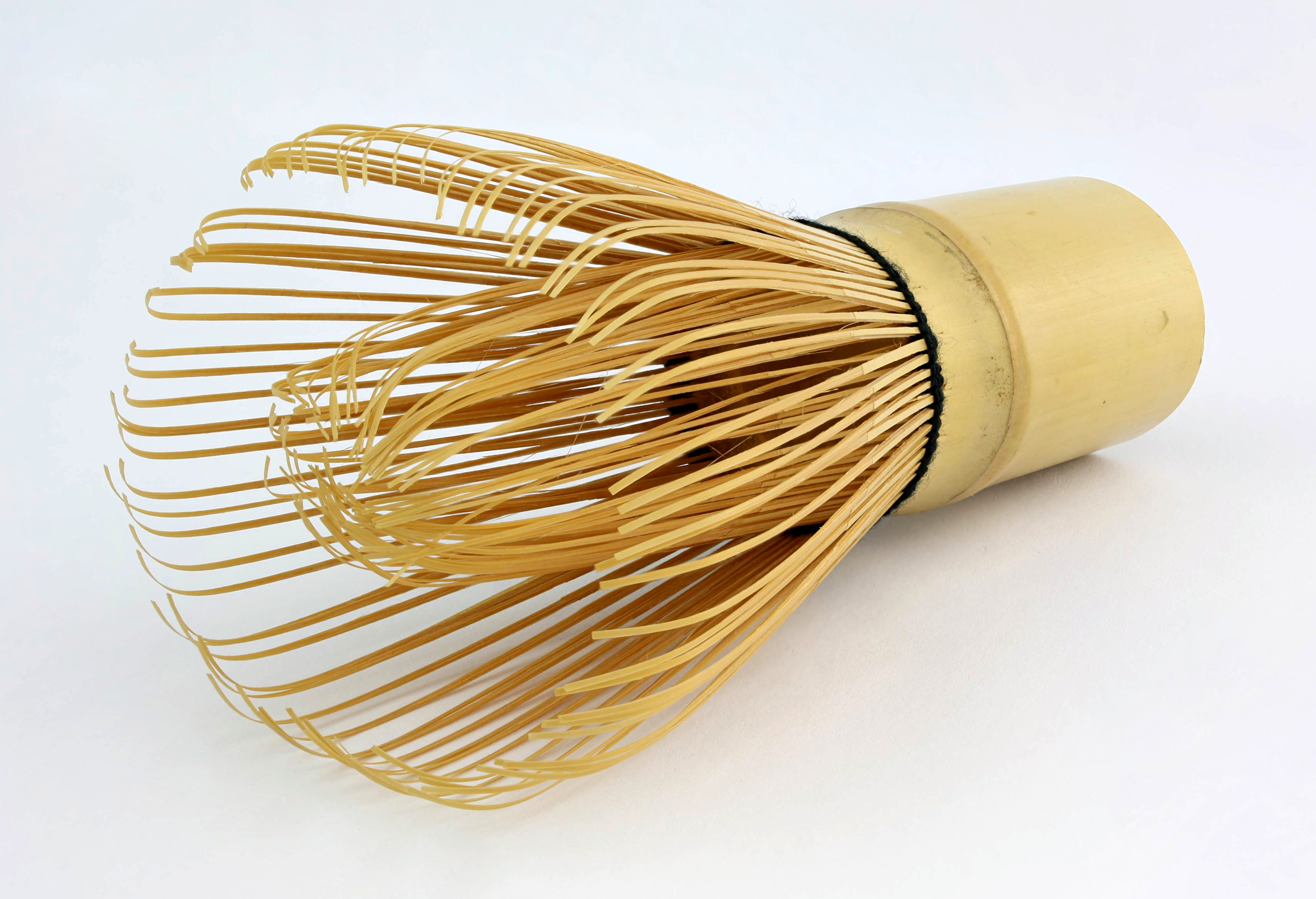 The top side and side view of a chasen used for the japanese tea ceremony